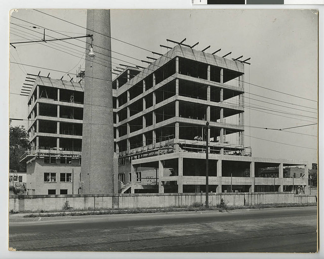 Mount Sinai Hospital was built during the 1950's to address the discrimination Jewish doctors experienced admitting Jewish patients to local hospitals. Date: 1950 Source: 28 x 21 Format: black and white commercial photograph Subject: Health and medicine; Mount Sinai Hospital Coverage: Minneapolis; Hennepin; Minnesota; United States Local Identifier: 18 Link to our record: From the Steinfeldt Photography Collection of the Jewish Historical Society of the Upper Midwest.